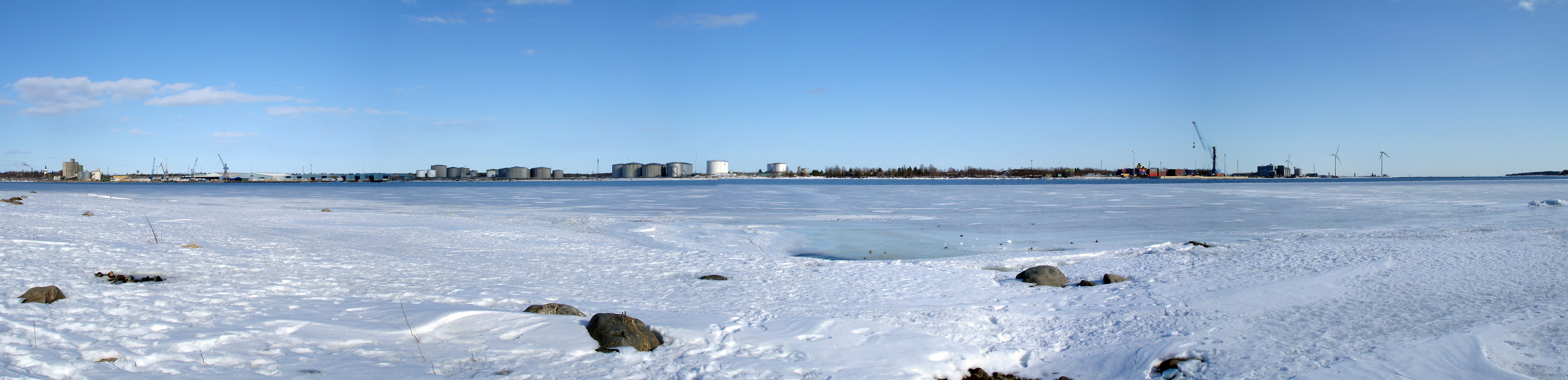 Panorama of Umeå harbour in northern Sweden